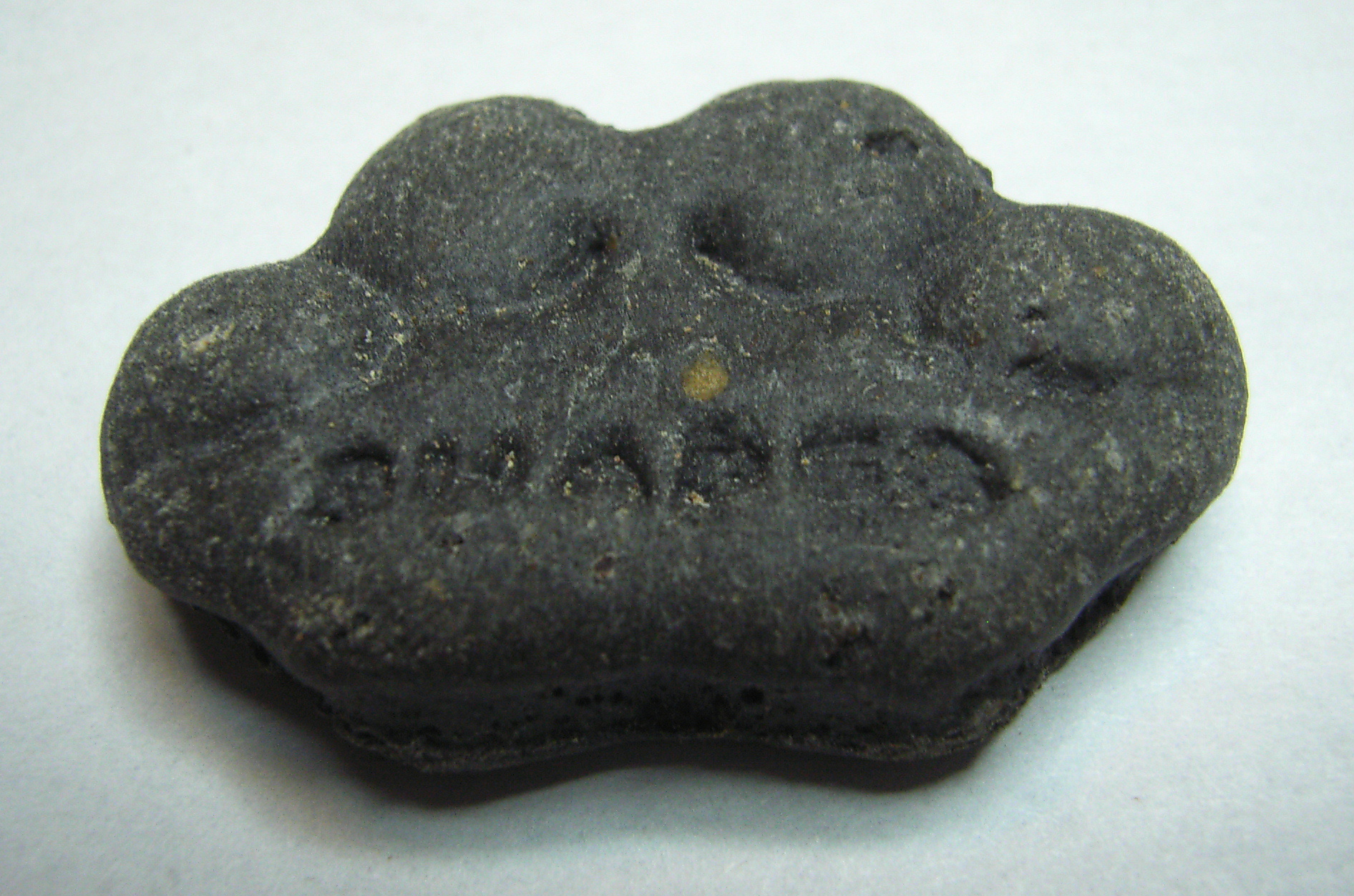 Charcoal dog biscuit, marketed as Winalot Shapes (a mixture of biscuits).